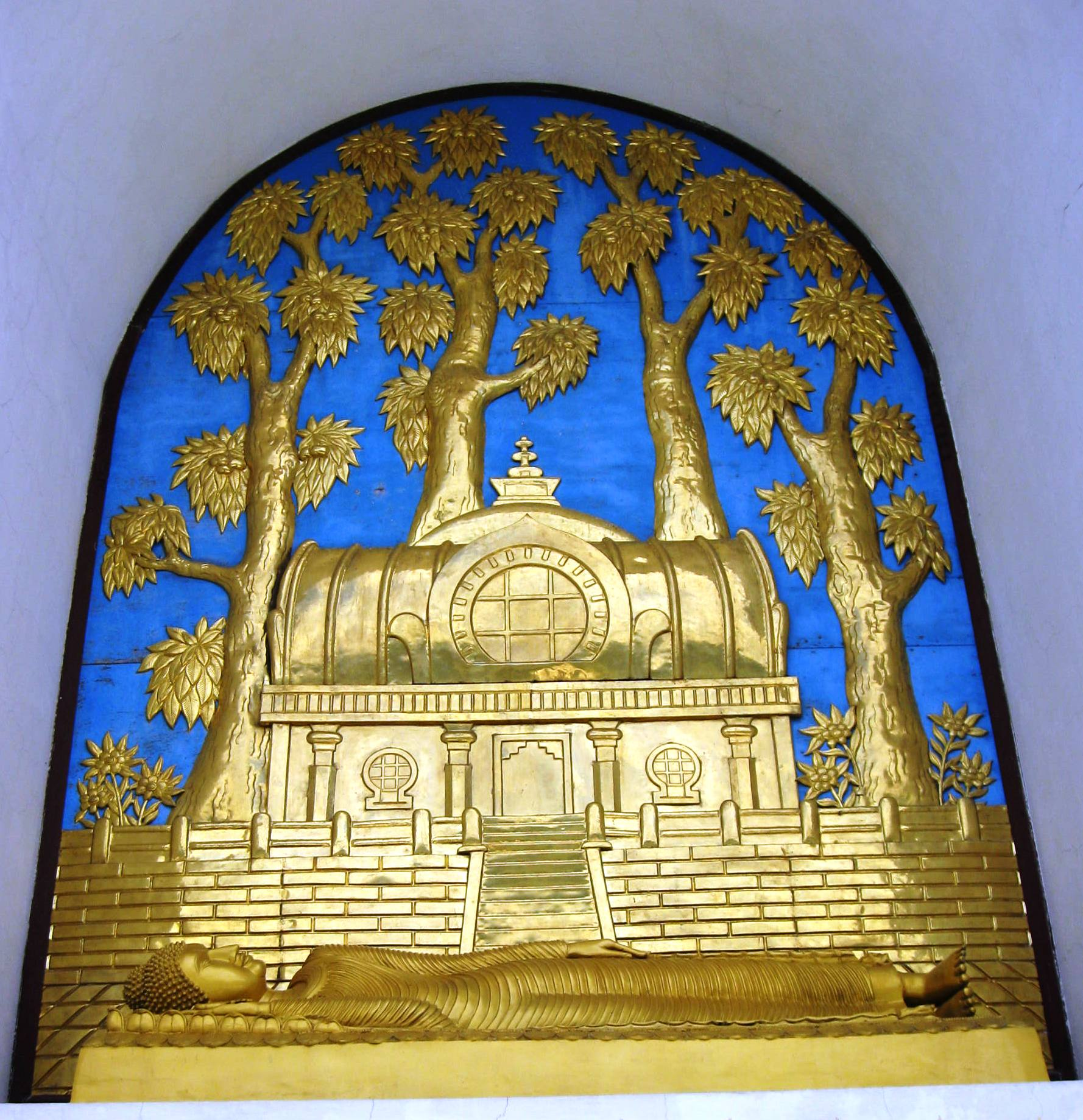 Gautam Buddha at the world peace pagoda